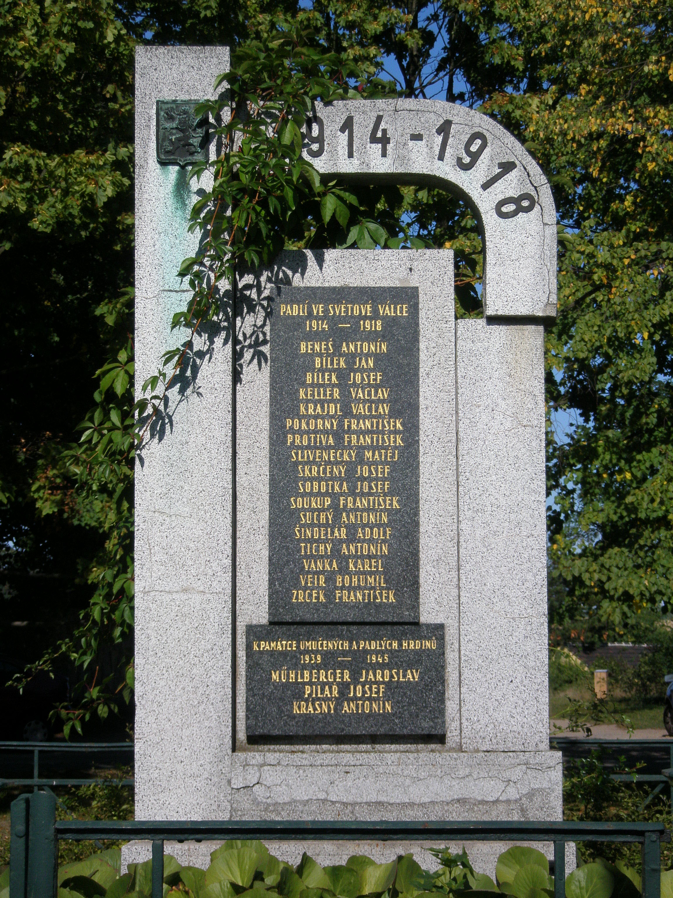 World War I & II memorial in Levý Hradec, Czech Republic